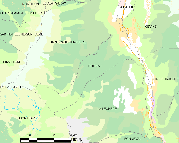 Map of French municipality